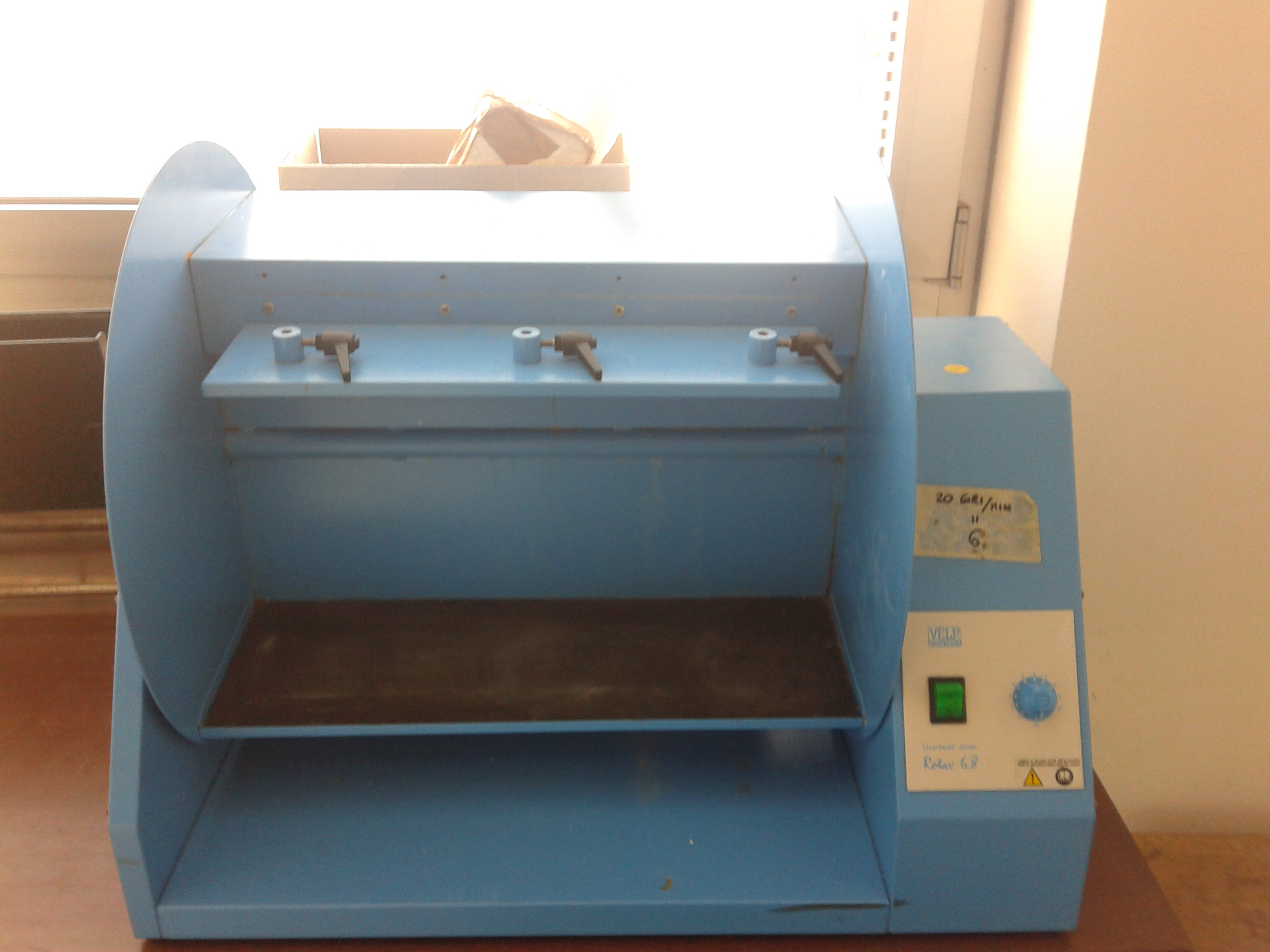 Mixing machine, chemical analysis, 6 samples